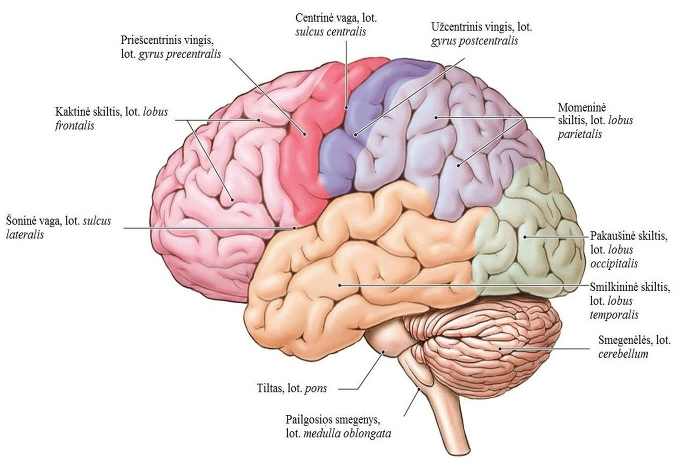 There is a later side of the brain where the main parts are visible.